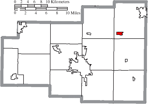 Map of the municipal and township boundaries of Allen County, Ohio, United States, as of the 2000 census, with the location of the village of Beaverdam highlighted. Township borders are shown only in unincorporated areas in order to differentiate incorporated and unincorporated areas more clearly.